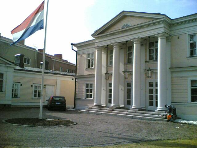 Residence Of Dutch Ambassador In Helsinki.